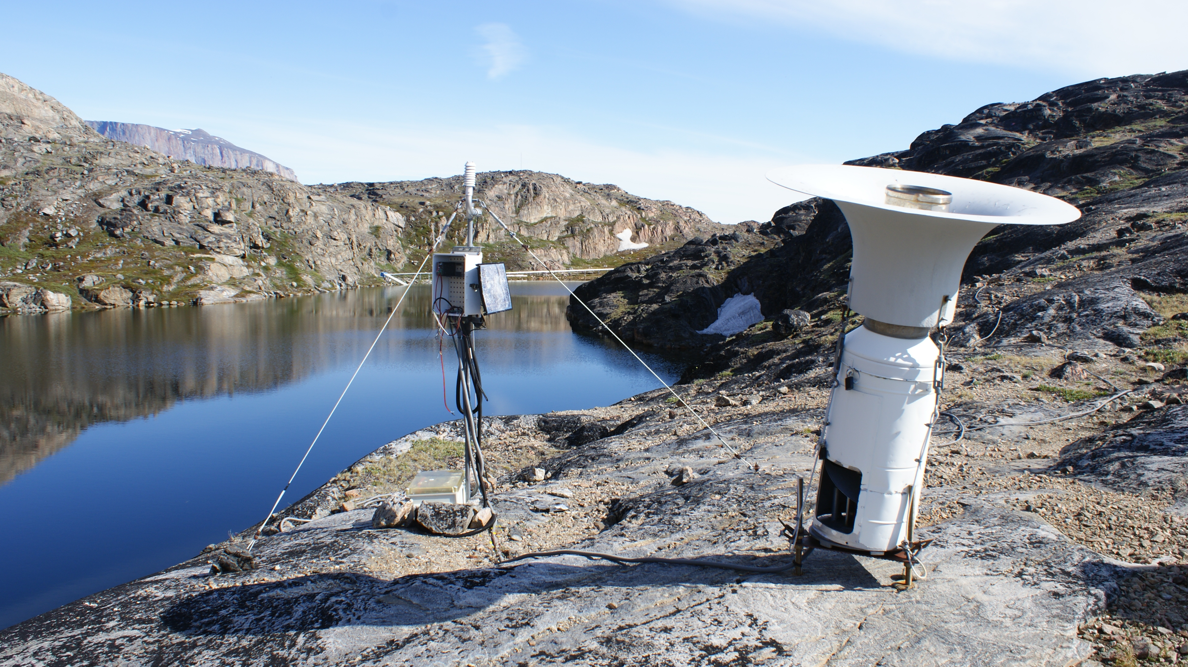 Blue Lake, Uummannaq Island, Greenland. (Broken) meteorological equipment. On the right is an automatic snow gauge.